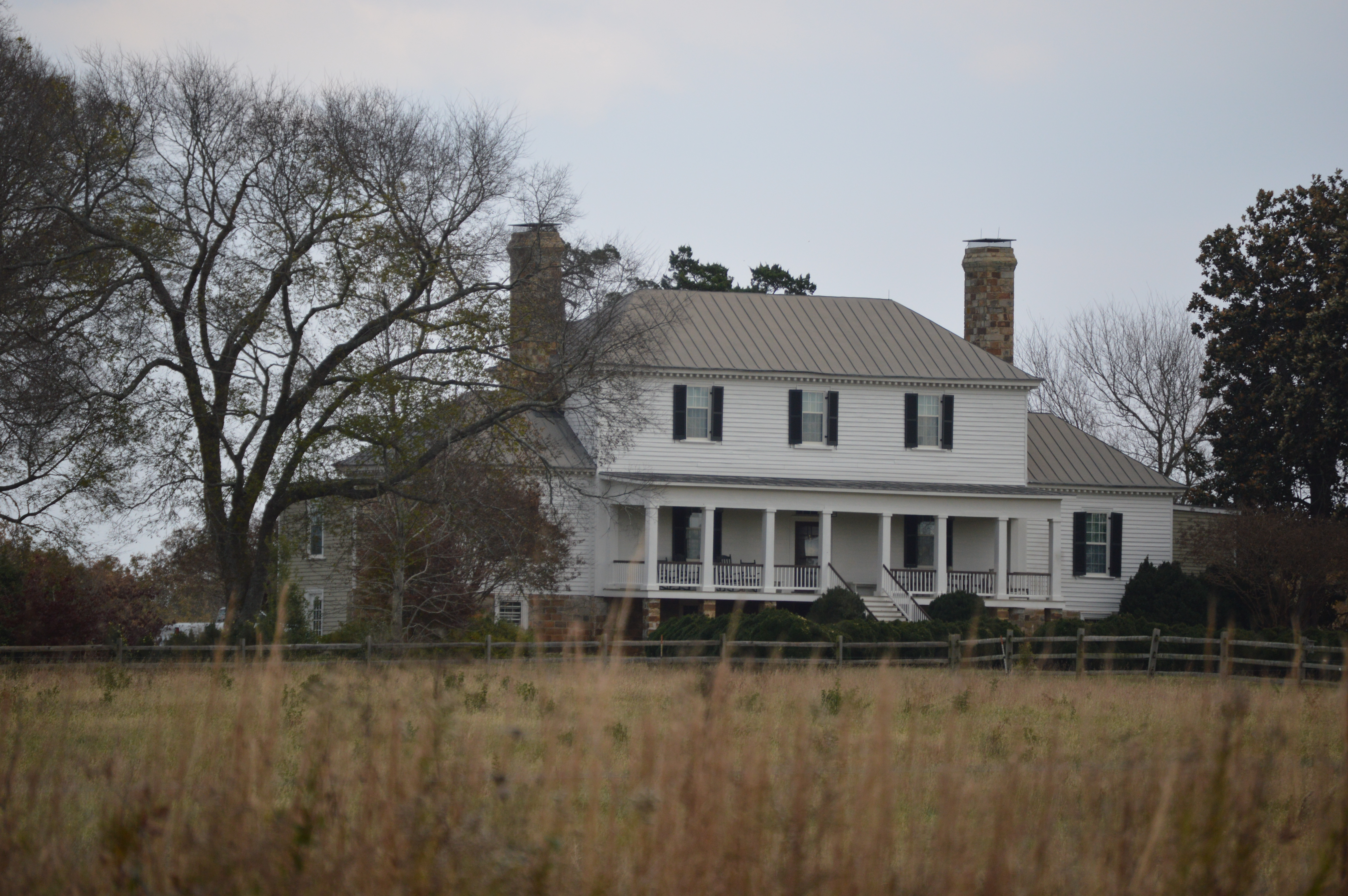 Roadside view of Spring Bank, located at 1070 State Route 49 southwest of Lunenburg in Lunenburg County, Virginia, United States. Built in 1793, it is listed on the National Register of Historic Places.